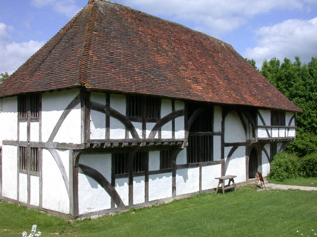 Bayleaf wealden house A timber-framed hall-house, mainly early 15th century, from Chiddingstone, Kent.